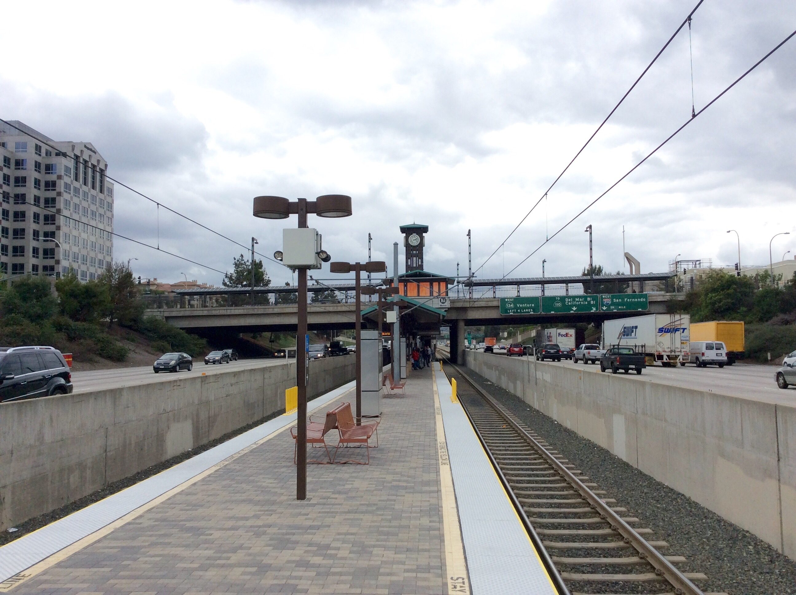 The platform view of Lake Station.